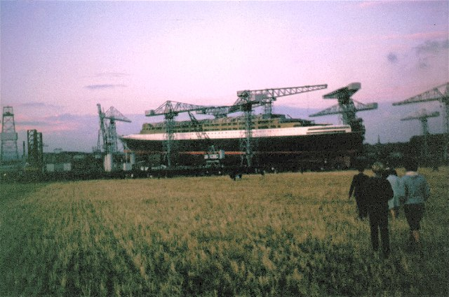 QE2 in John Browns shipyard